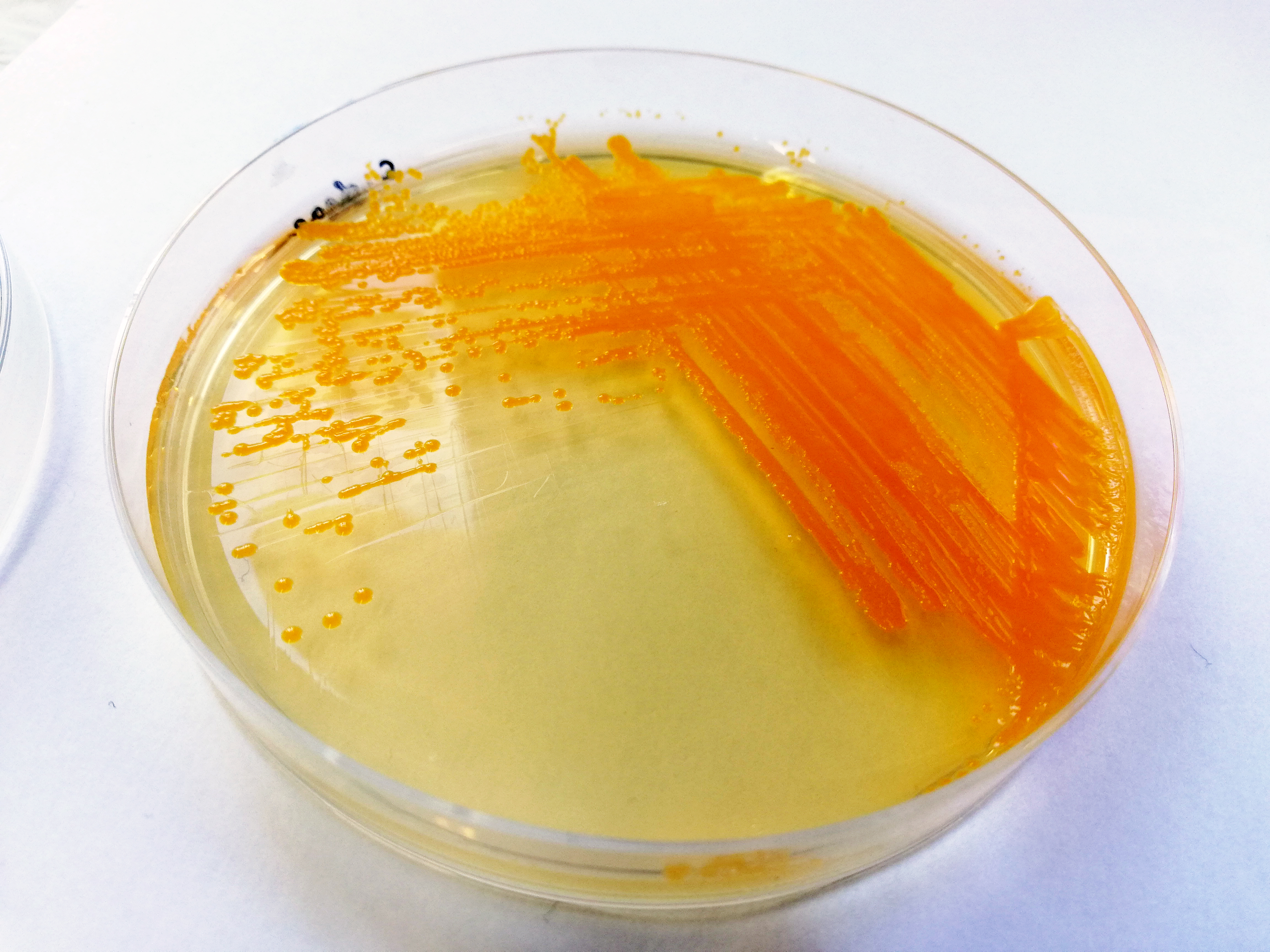 Chryseobacterium oleae DSM25575 bacteria grown on LB agar medium at 30 C.